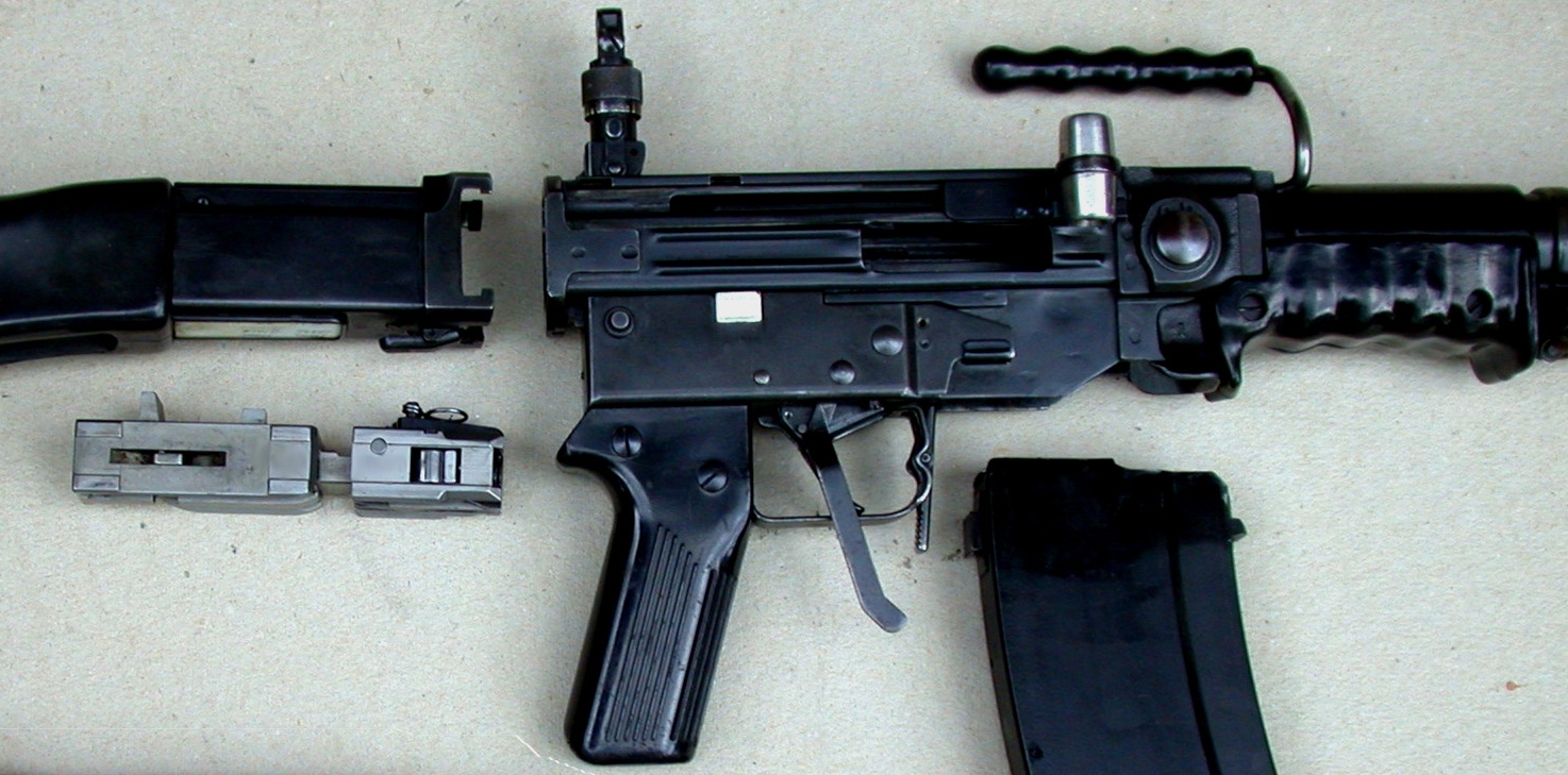 Stgw 57 dismounted